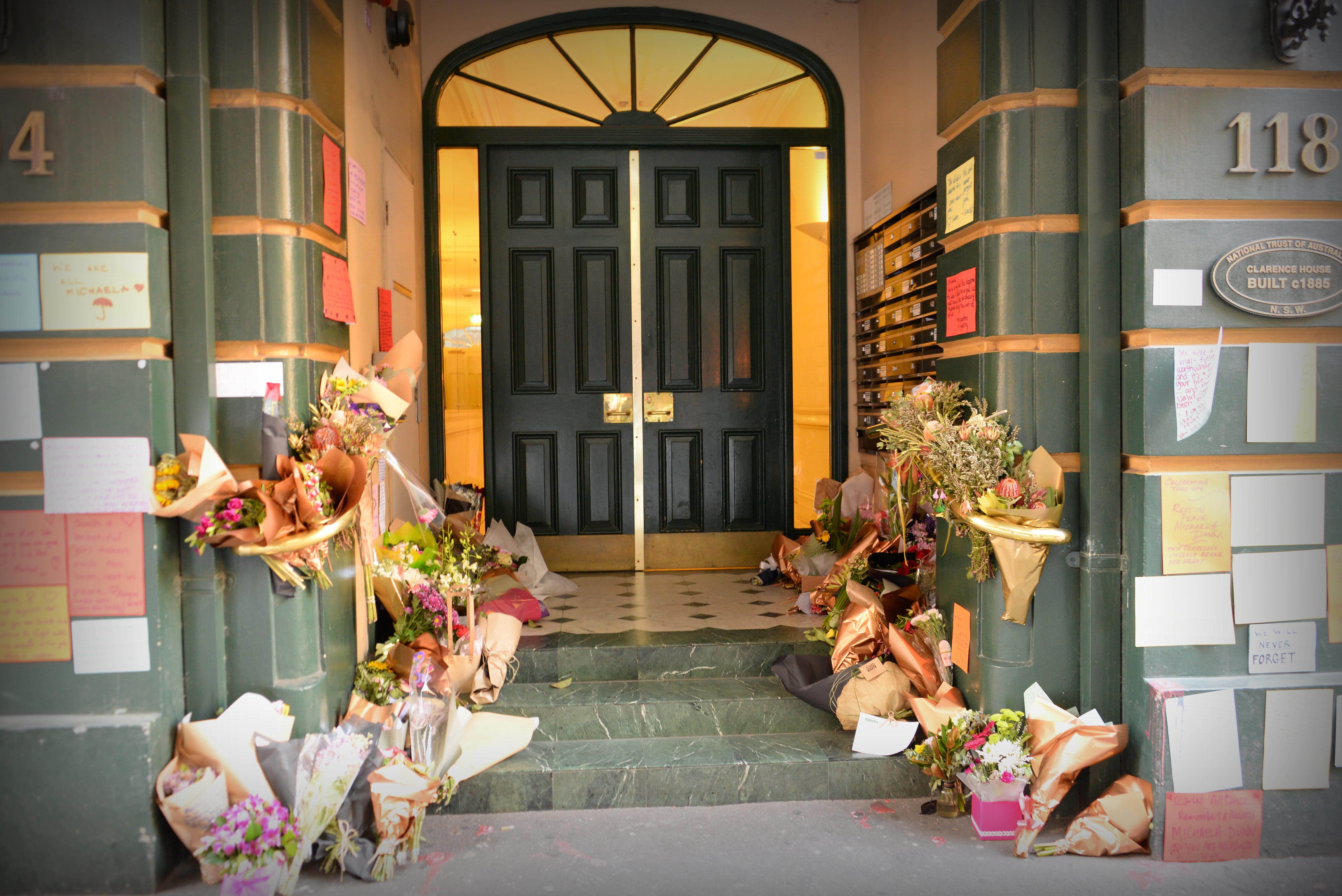 Tributes to first victim of Mert Ney, outside the building where the murder occurred, Clarence Street, Sydney